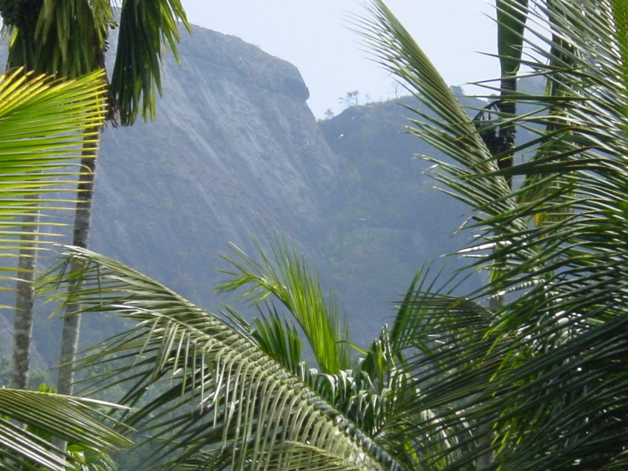 This picture was taken by me in Dec. 2004. Visible near the ridge is a cave which passes through the mountain. You can see light shining through. Edakkal caves (the ones with the ancient engravings) are actually a bit lower than the visible cave. --BostonMA 02:03, 21 January 2006 (UTC)